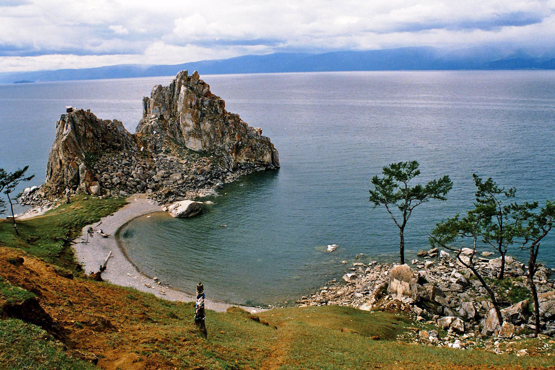 In Olkhon island, one cloudy day...